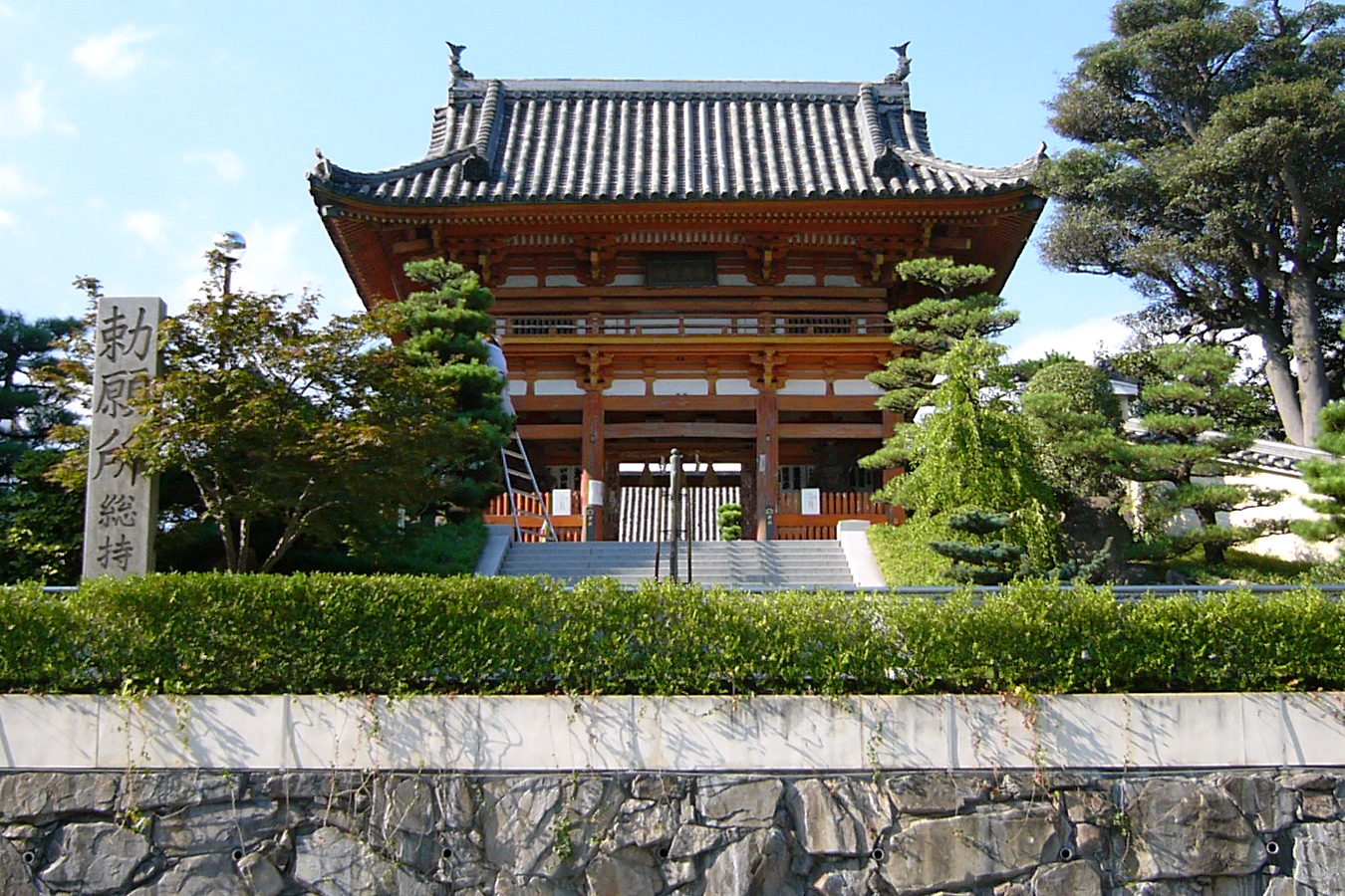 Sojiji in Ibaraki City, Osaka prefecture, Japan